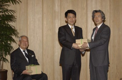 Jun'ichirō Koizumi, Prime Minister, awarded a certificate of commendation to Masatoshi Koshiba, Emeritus Professor of the University of Tokyo, and Kōichi Tanaka, Fellow of Shimadzu Corporation, at the Prime Minister's Official Residence in Chiyoda Ward, Tōkyō Metropolis on February 7, 2003.